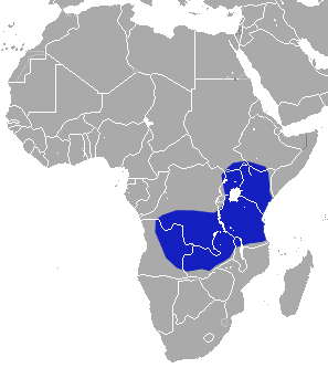 African Black Shrew (Crocidura nigrofusca) range